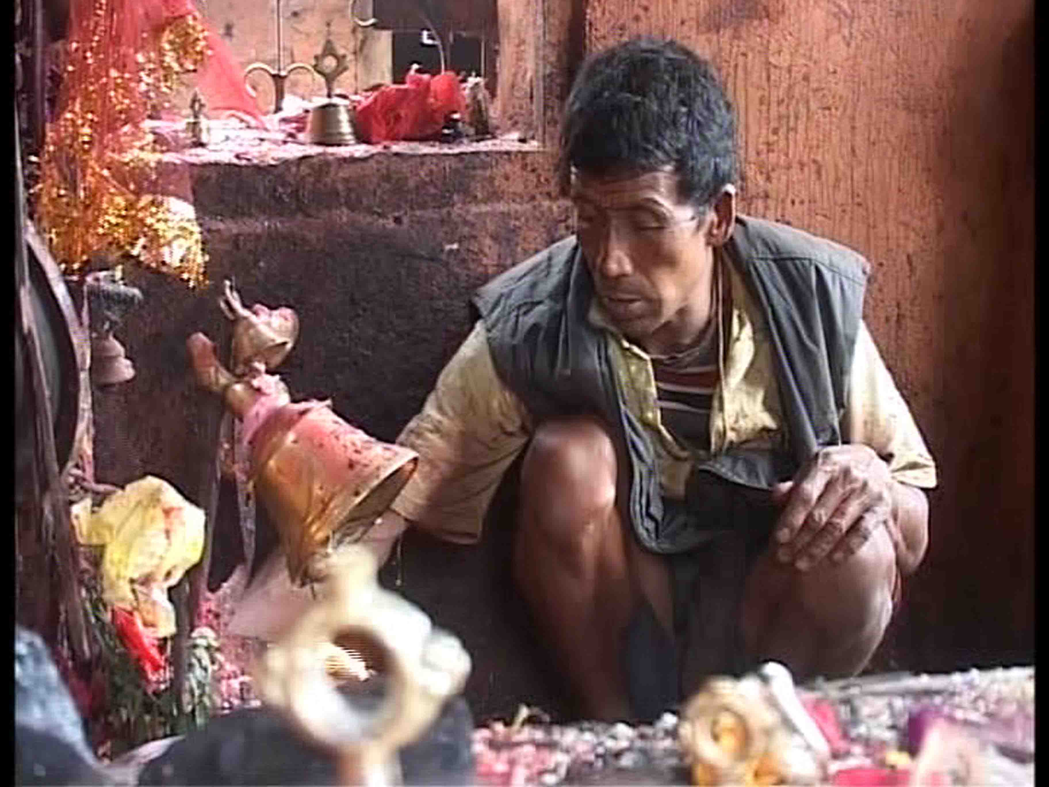 Priest of Khada Devi Temple situated in Ramechhap District.